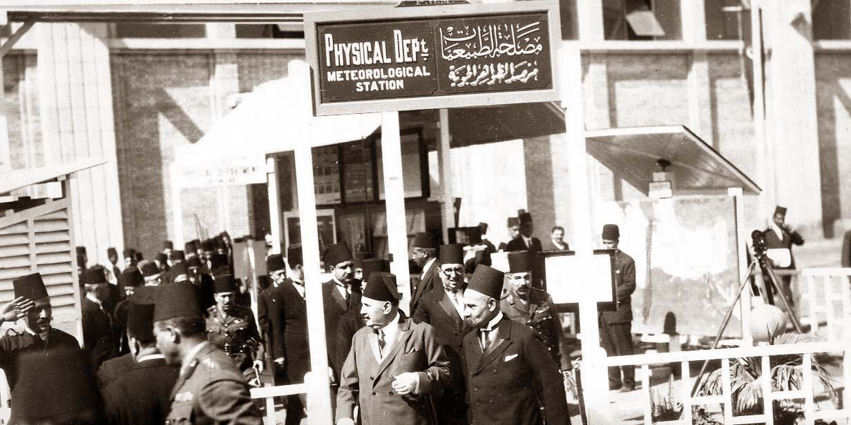 King Fouad I of Egypt in the Physical (Natural Science) Department during his visit to a meteorogical station.